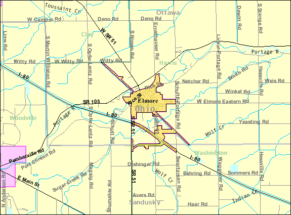 Map of Elmore, a village in Ottawa and Sandusky counties in the U.S. state of Ohio, with its boundaries at the time of the 2000 census.